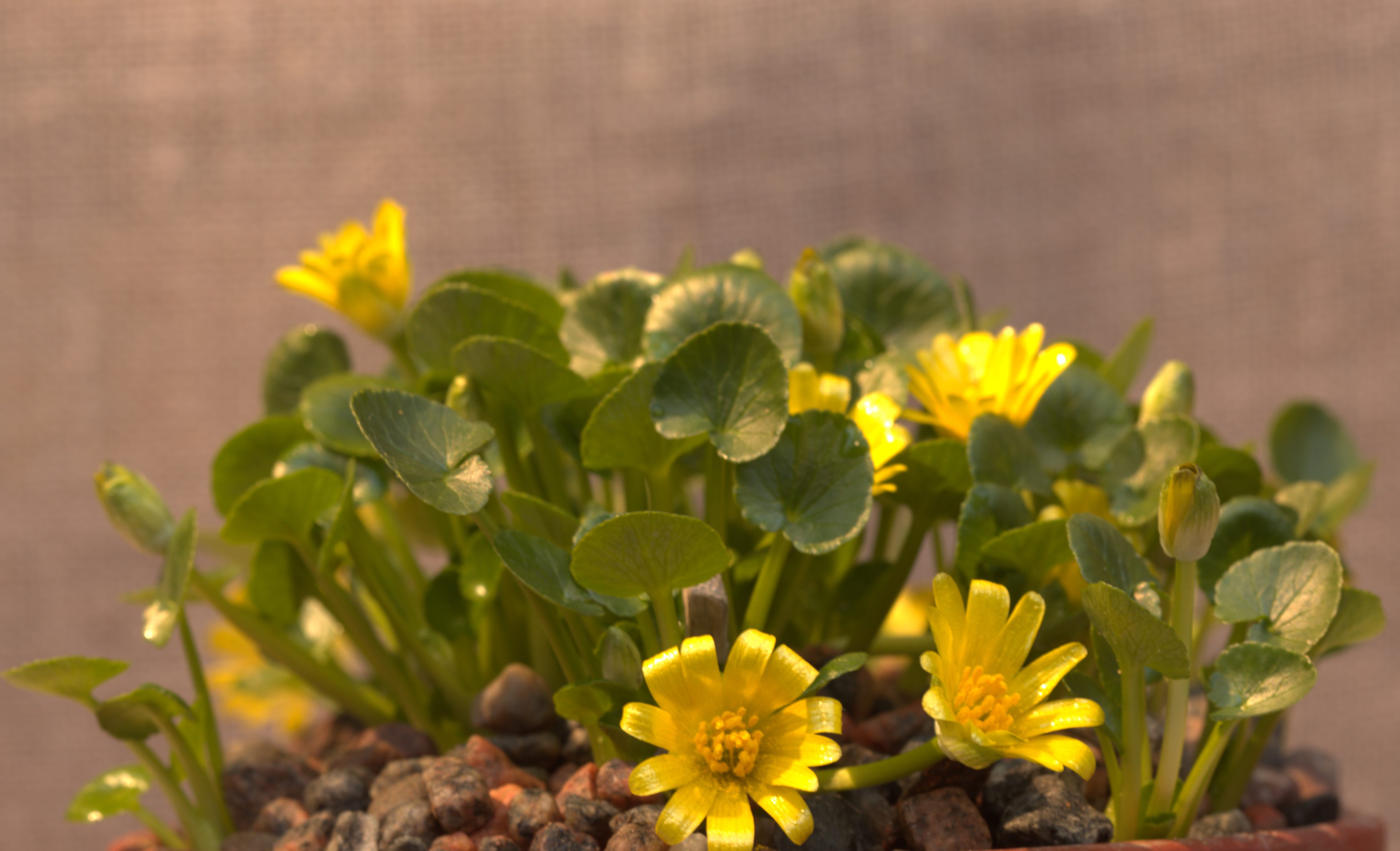 Ficaria ficarioides (sign: Ranunculus aff. ficariodes) in Gothenburg Botanical Garden. Plant id: 2003-2003/1 p W -- T4Z(2)